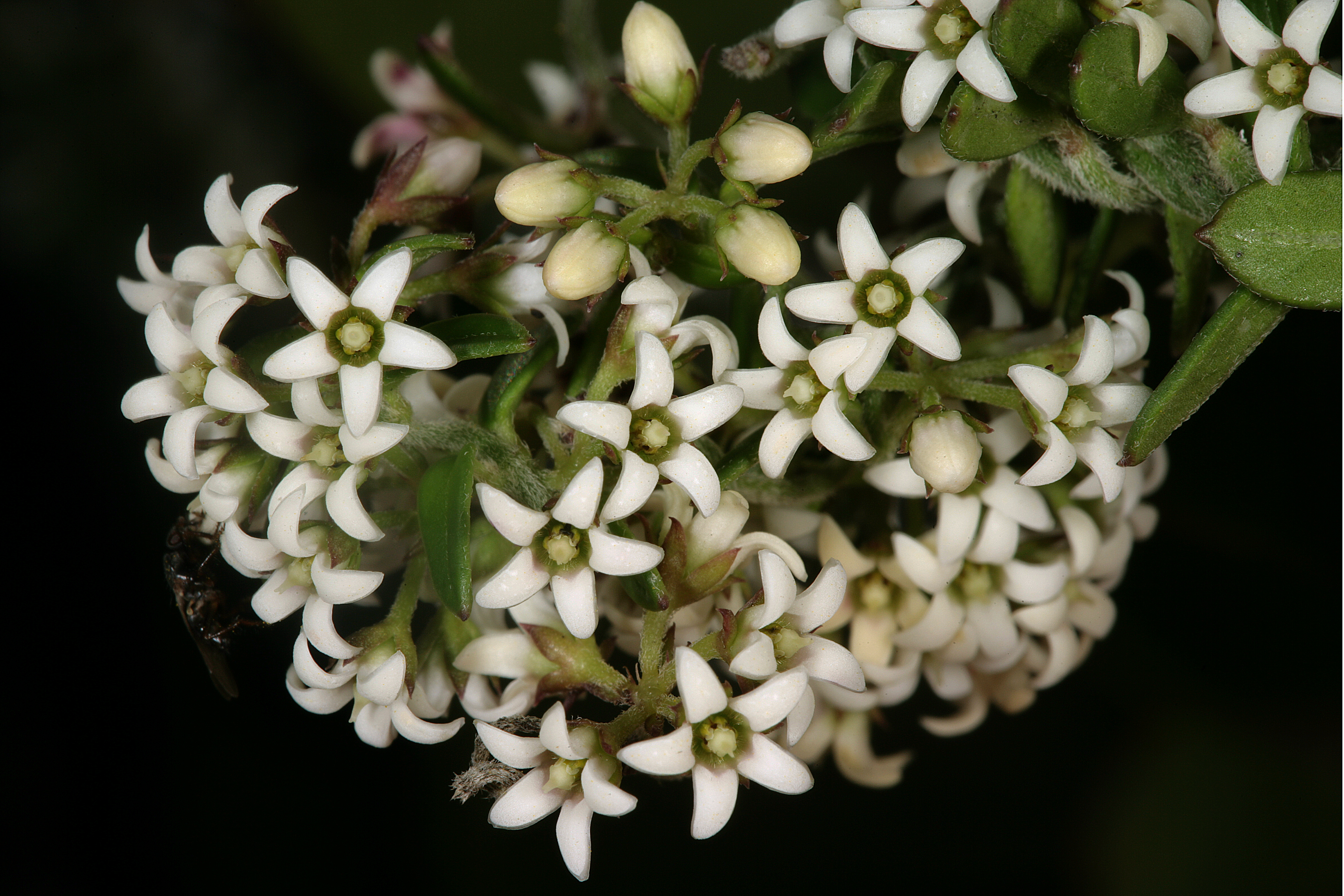 Astephanus triflorus, flowers (with visiting fly); Cape Point Nature Reserve, Cape Town, Western Cape, South Africa